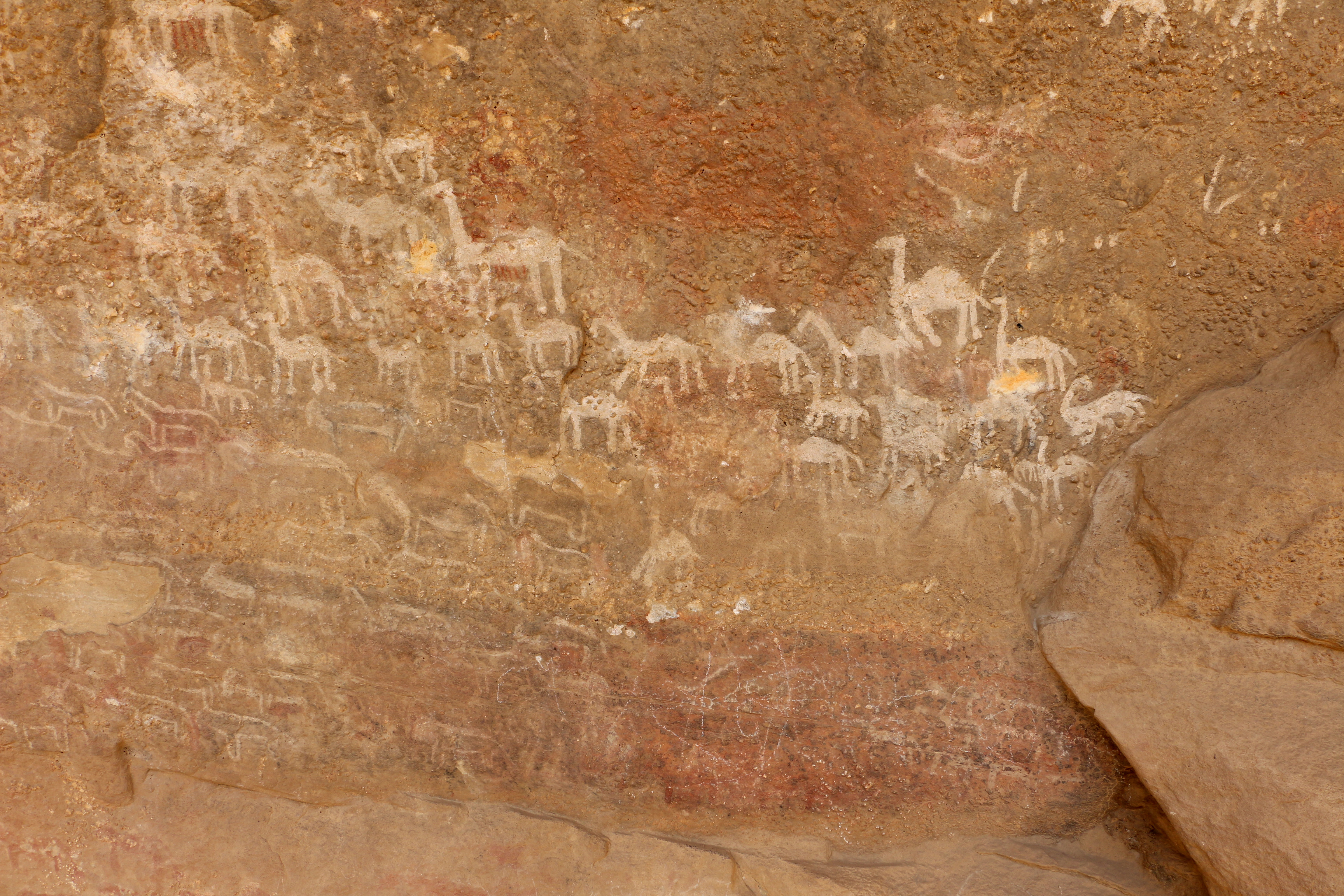 Adi Alauti Cave